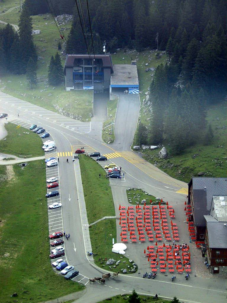 Schwägalp : Säntis-cableways.